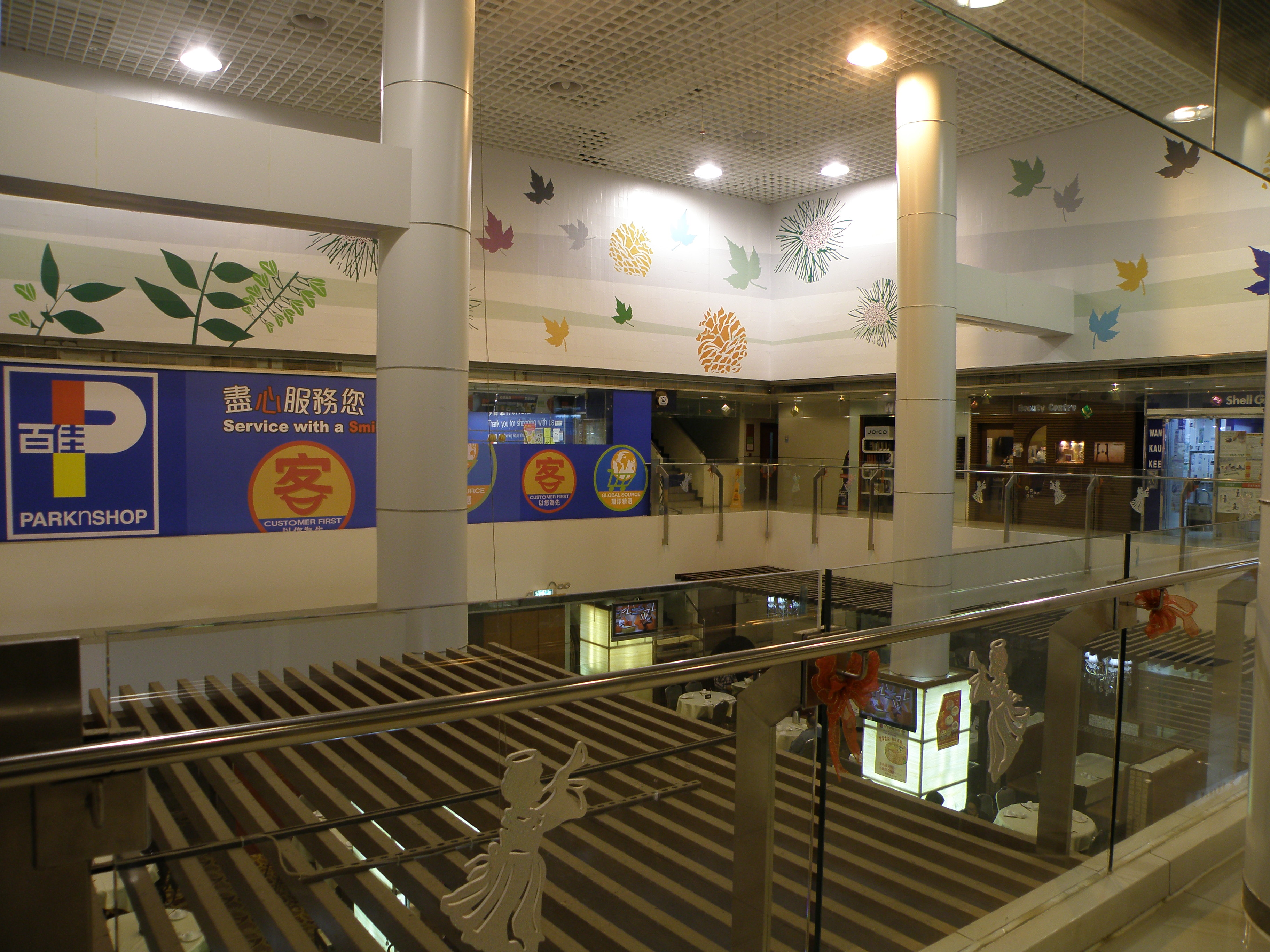 Tsui Chuk Garden shopping centre in Chuk Yuen, Hong Kong.